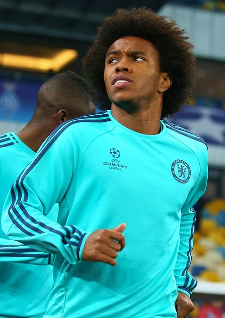 Willian